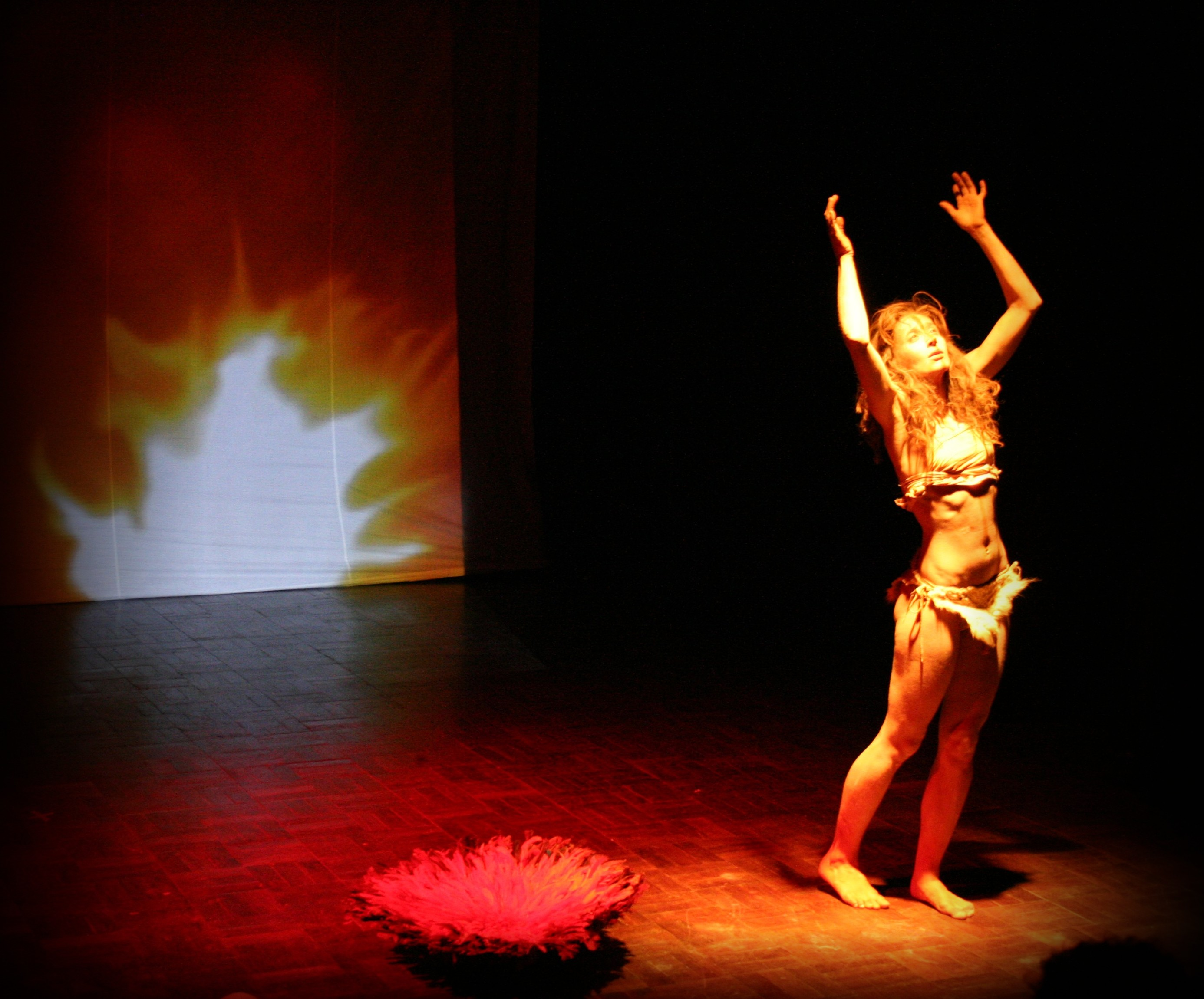 From "Echo in the Dark", by New York dancer and choreographer Kathi von Koerber: Improvisational multi-media Afro-Butoh solo dance performance. Harare, Zimbabwe in May 2007.